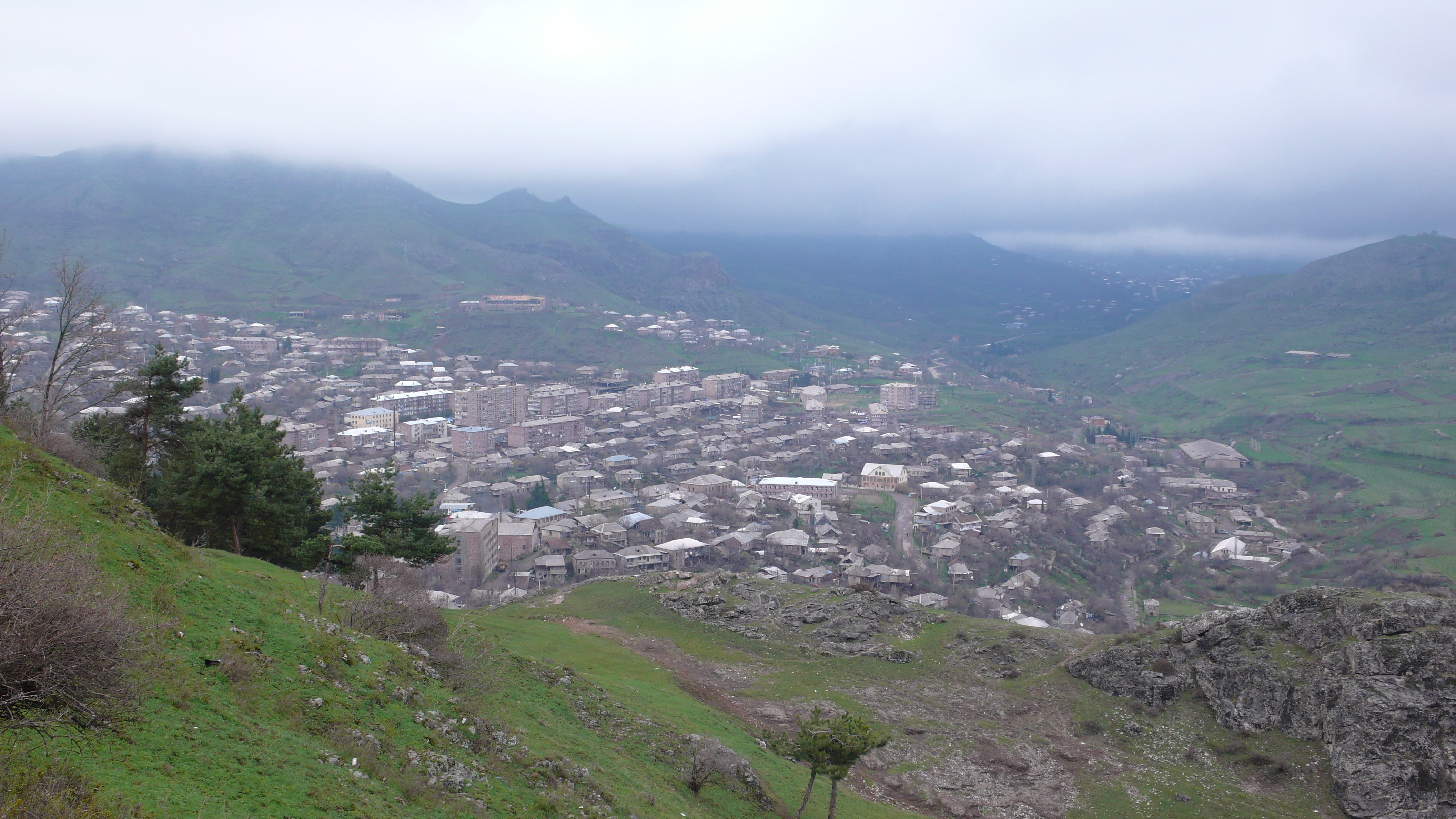 Berd city in Tavush province of Armenia